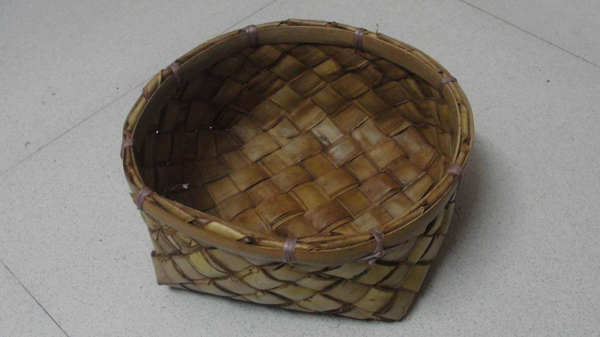 this photo depicting a Palmyra craft work used for keeping food materials. This is one of the Tamil traditional icon.